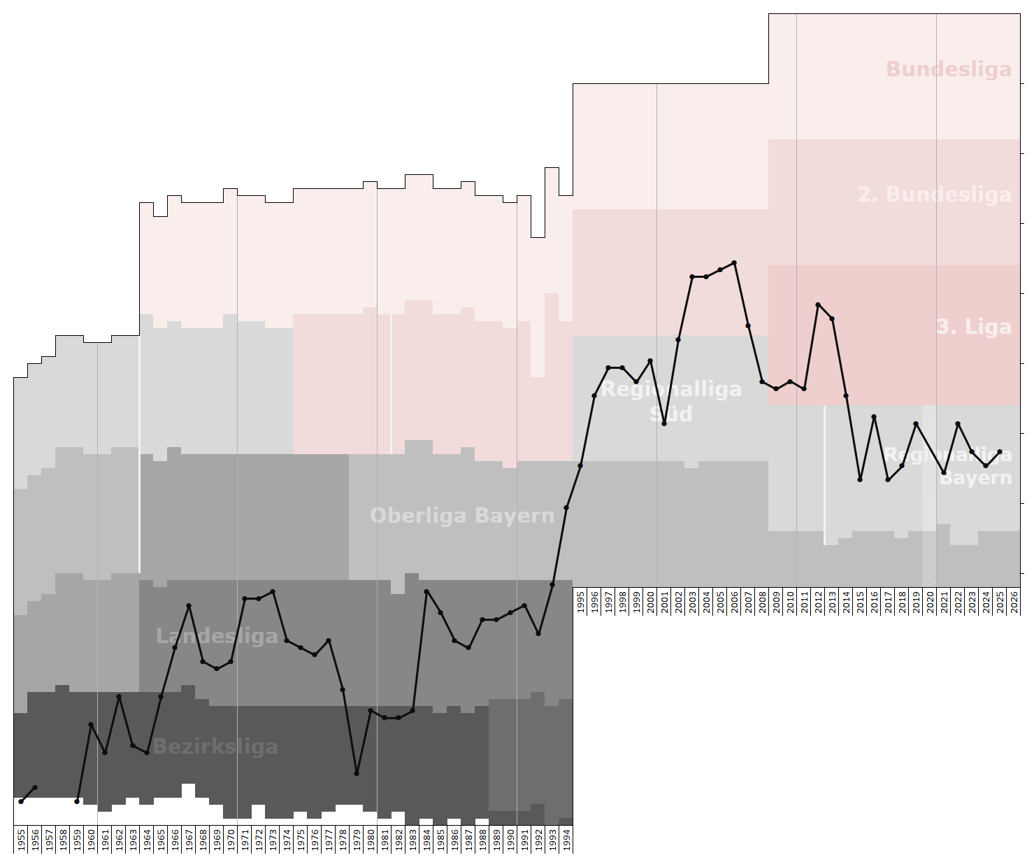 Chart of end-season table positions of Wacker Burghausen in the football league system of Germany. Data source: RSSSF, wikipedia, f-archiv.de, fussball.de